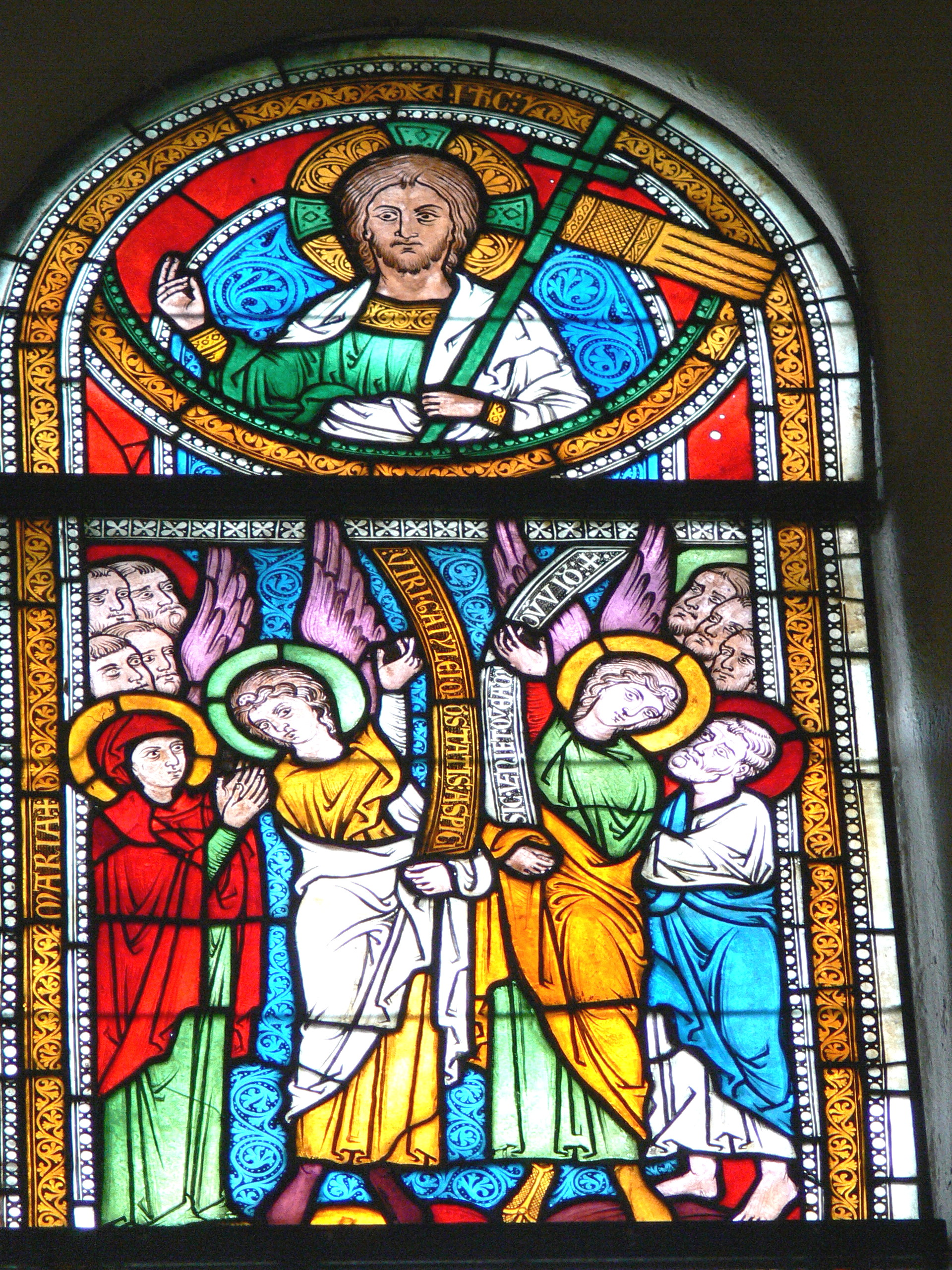 Dalhem Kyrka in Gotland. Stained glass windows (c. 1230) : Ascension of Christ